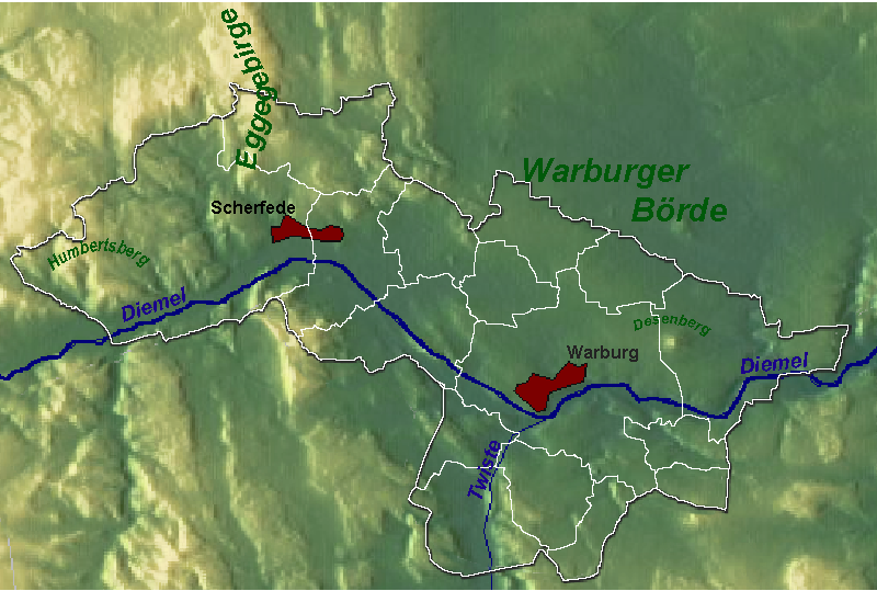 Topography of City of Warburg, county of Höxter, Germany